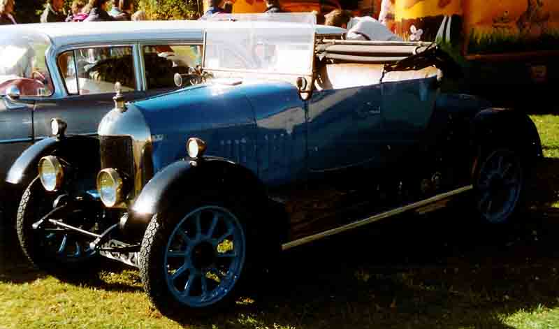 Morris Cowley 2-Seater